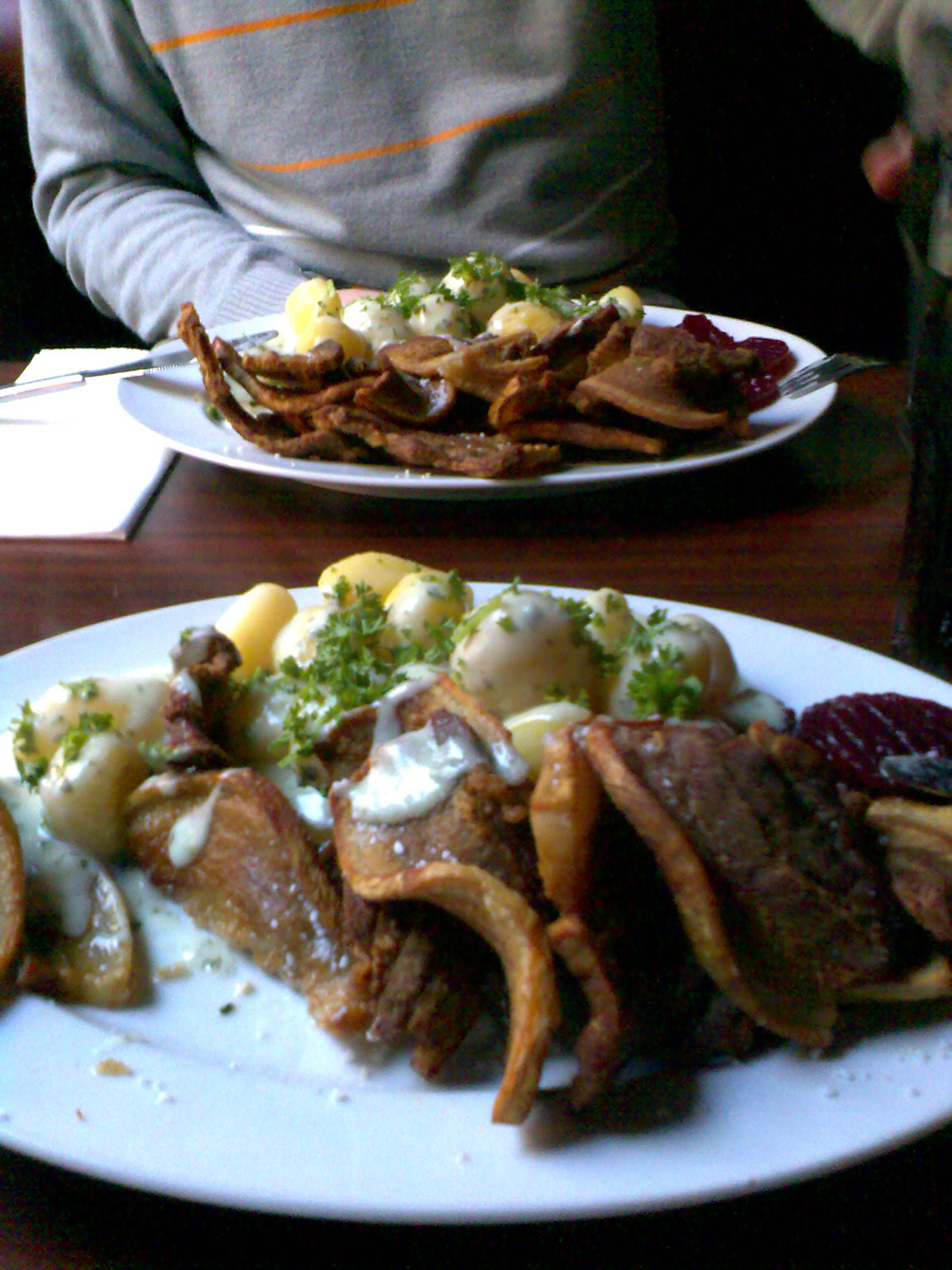 stegt flæsk med persillesovs (bacon with potatoes in parsley cream sauce) from Denmark, taken by jacobms from Flickr June 22, 2007, attribution required